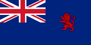 Flag of British East Africa